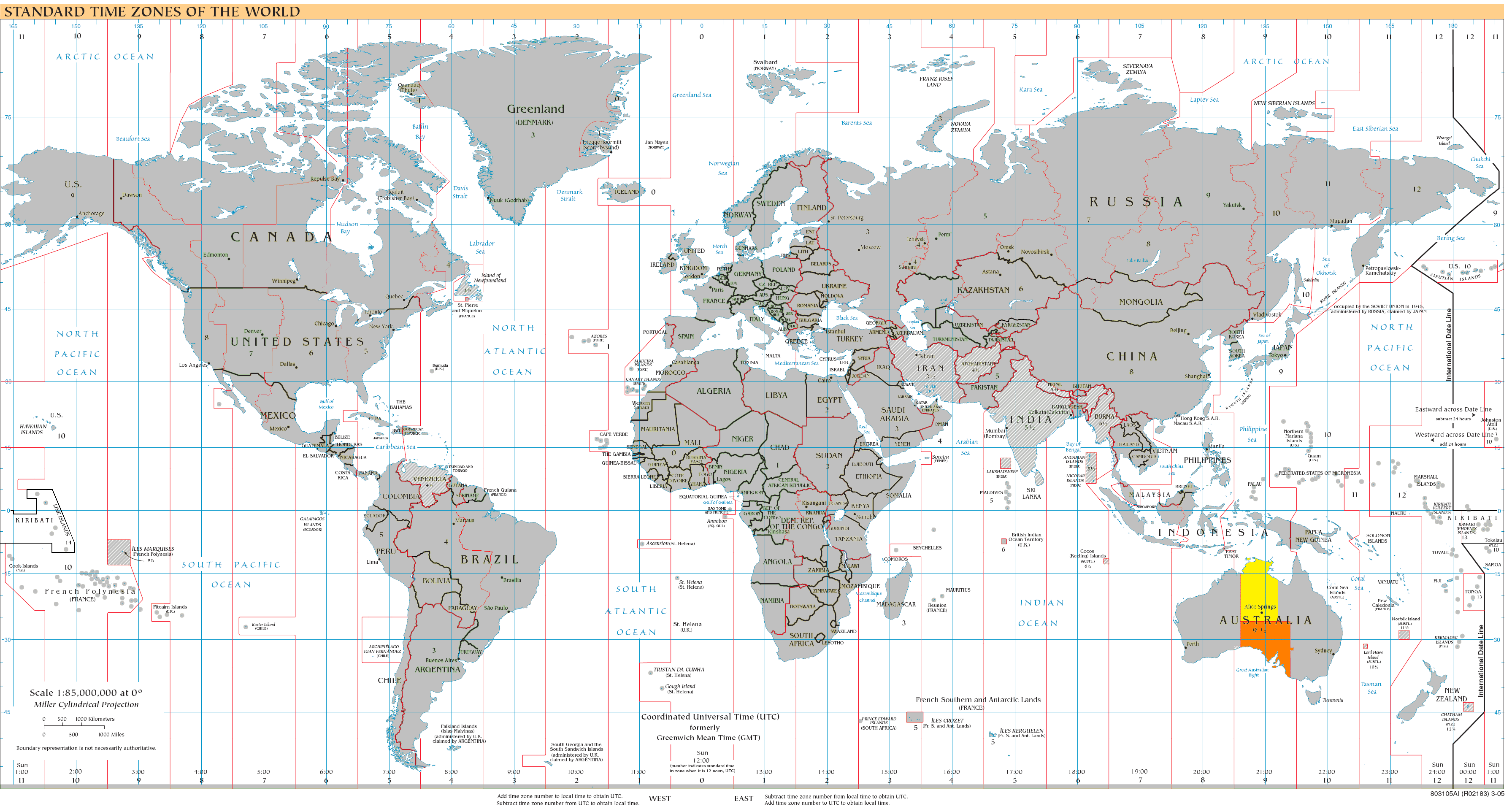 World map of time zones as of June 2008. Highlighting UTC+9:30 Yellow: UTC+9:30 All Year round Orange: UTC+9:30 Southern Hemisphere Winter / Northern Summer